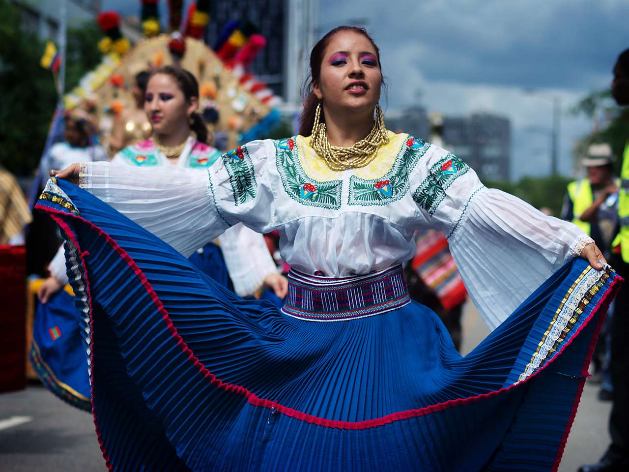 Latin American parade on the Walworth Road.